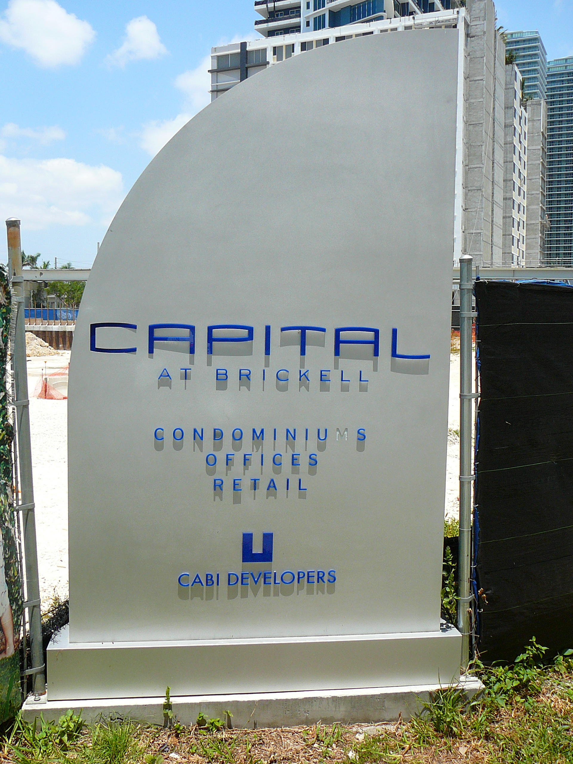 Digital photo taken by Marc Averette. The site of the future The Capital at Brickell Tower Complex towers in downtown Miami 5/14/2008